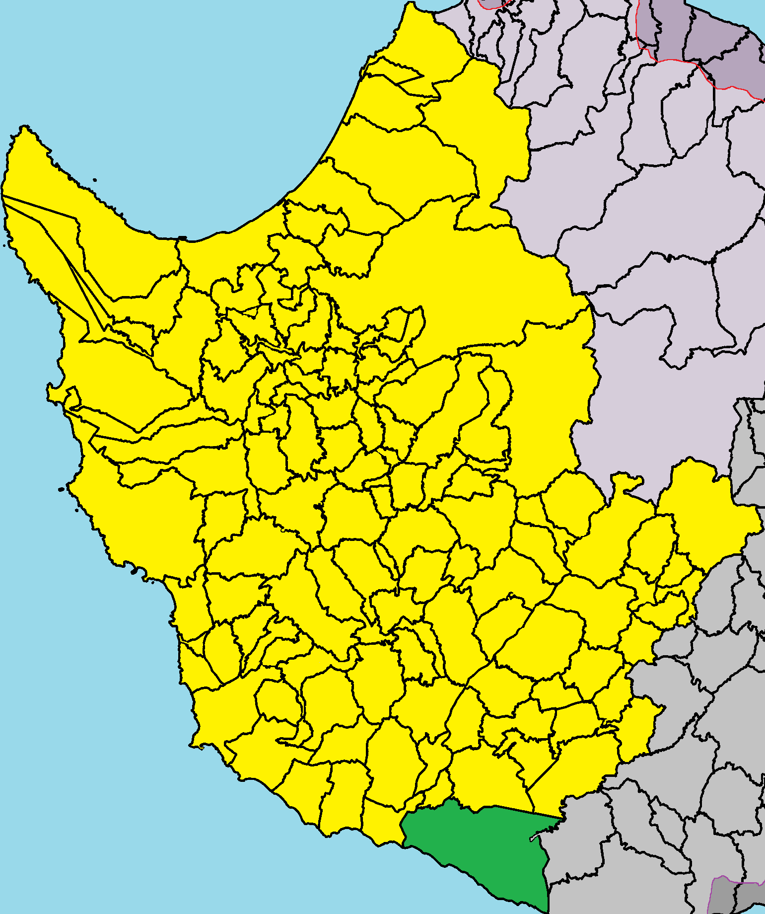 Kouklia in Paphos District.